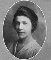 Harlem Renaissance poet Esther Popel Shaw, from the 1919-1920 Dickinson College yearbook Microcosm